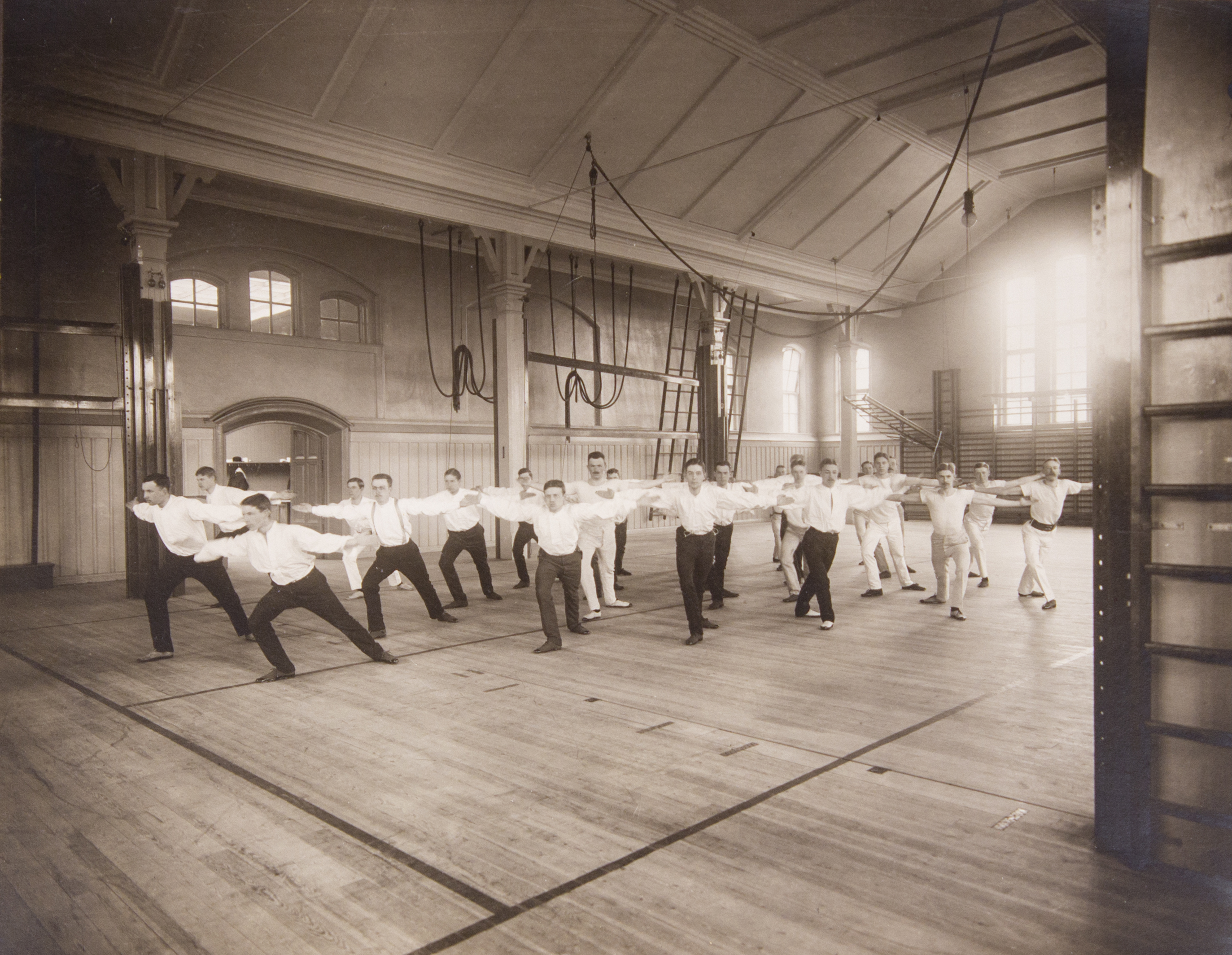 Swedish gymnastics at Uppsala University 1908